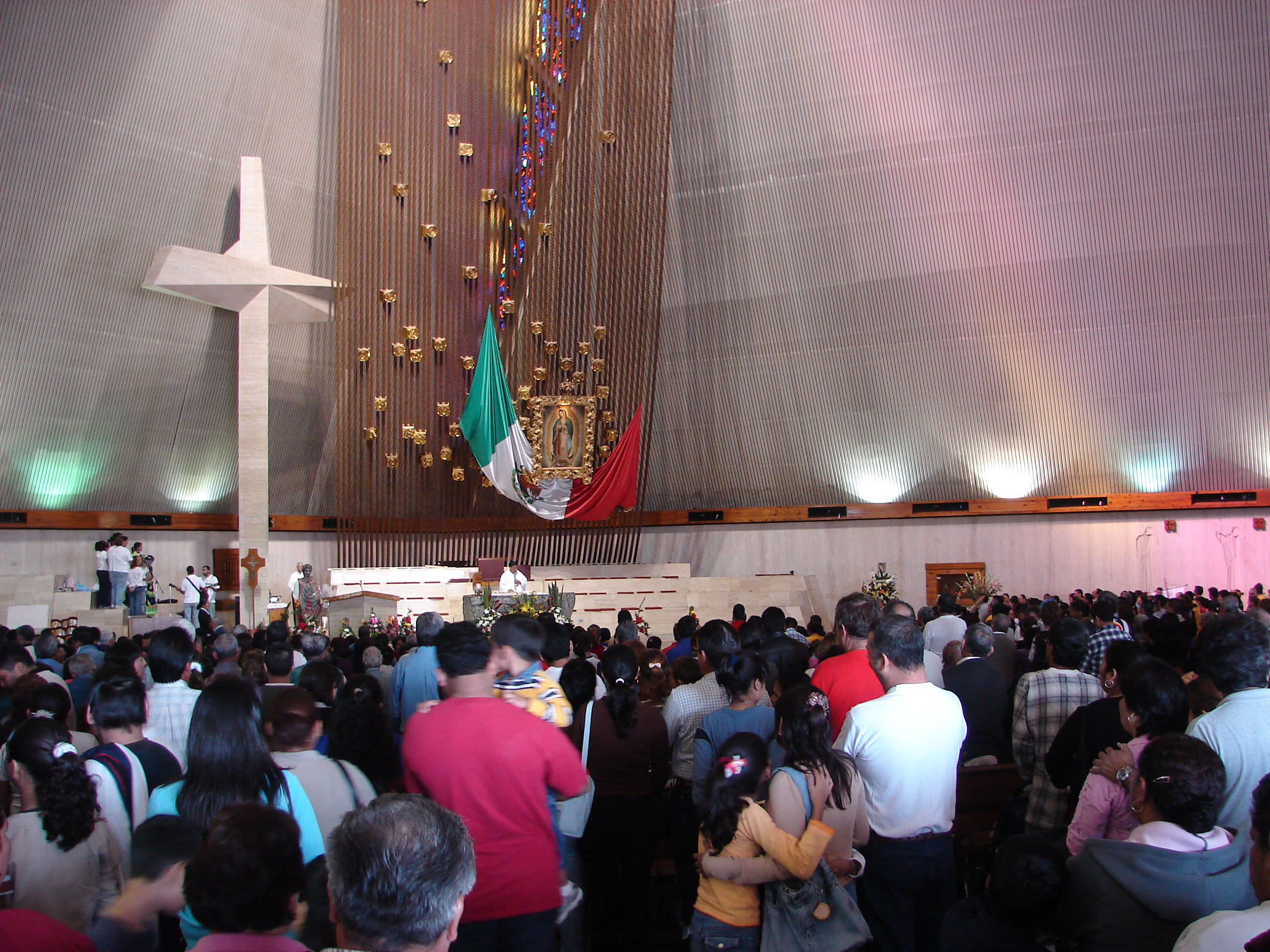 Interior of the Basilica de Guadalupe/Basilica of Our Lady of Guadalupe, in Monterrey, Nuevo Leon